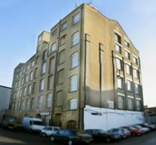 Photograph of building housing Mother Studios.